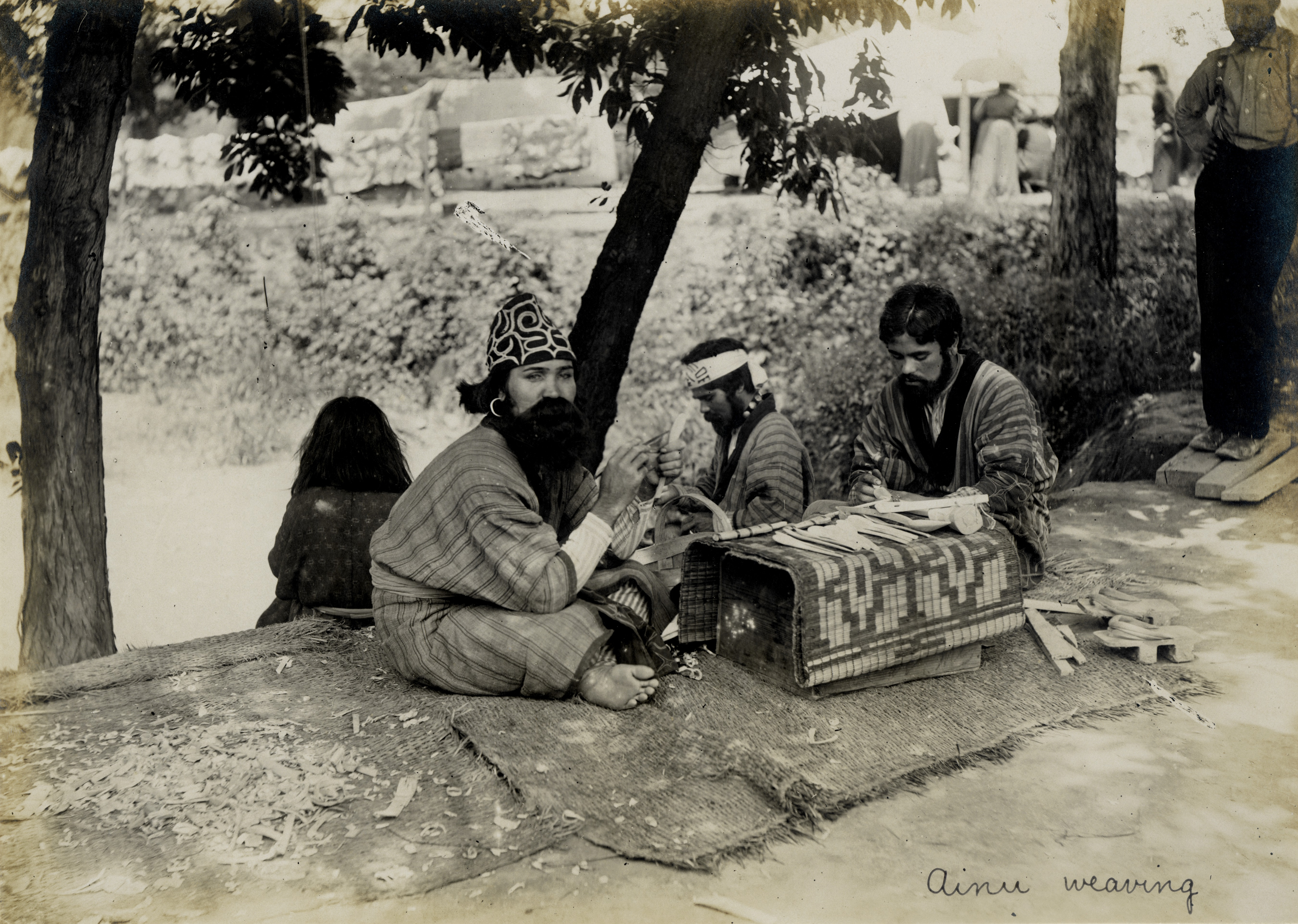 Title: Ainu man weaving in a display for the Department of Anthropology at the 1904 World's Fair.